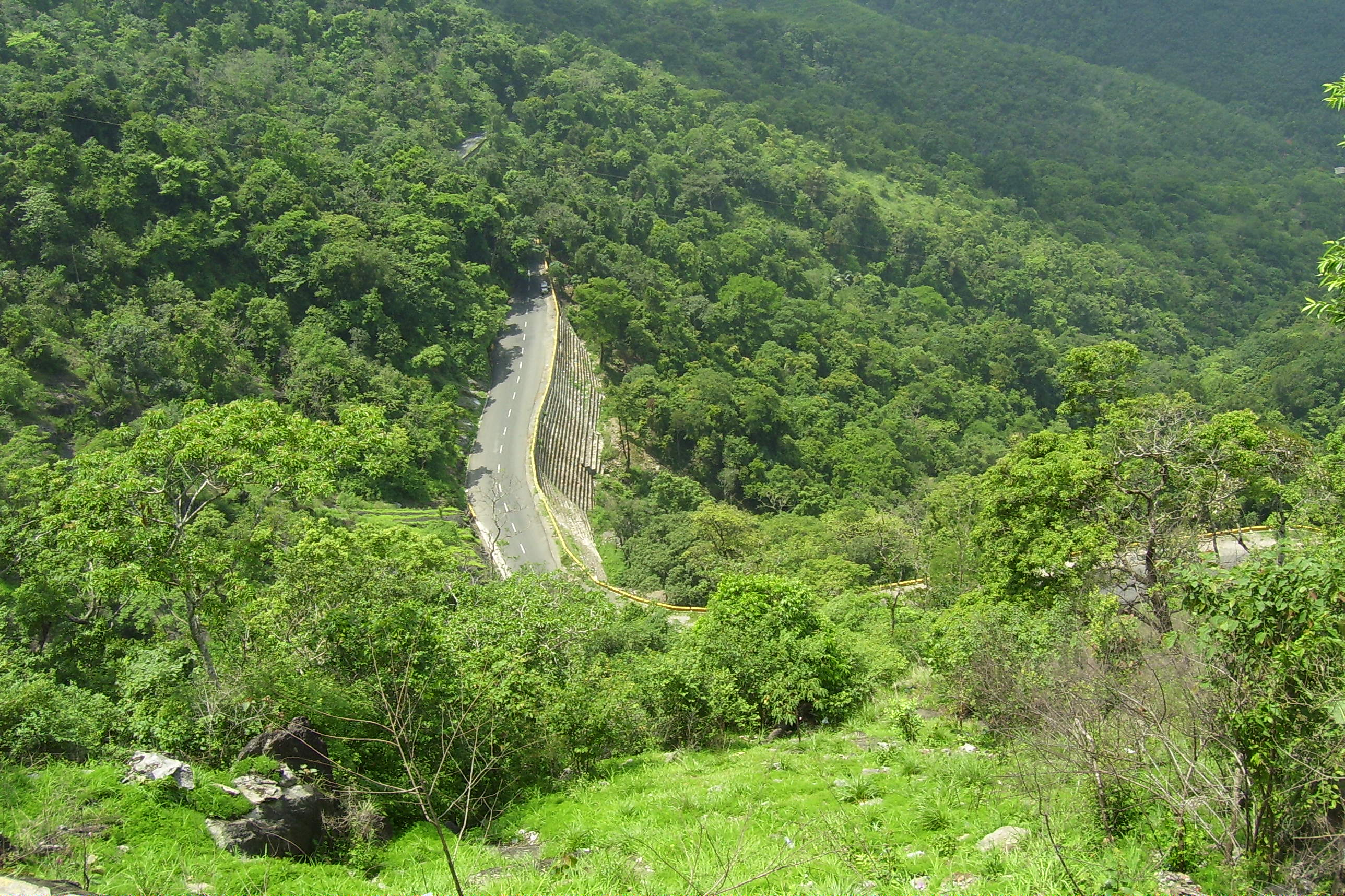 Thamarassery - Wynad Road, Kerala, India